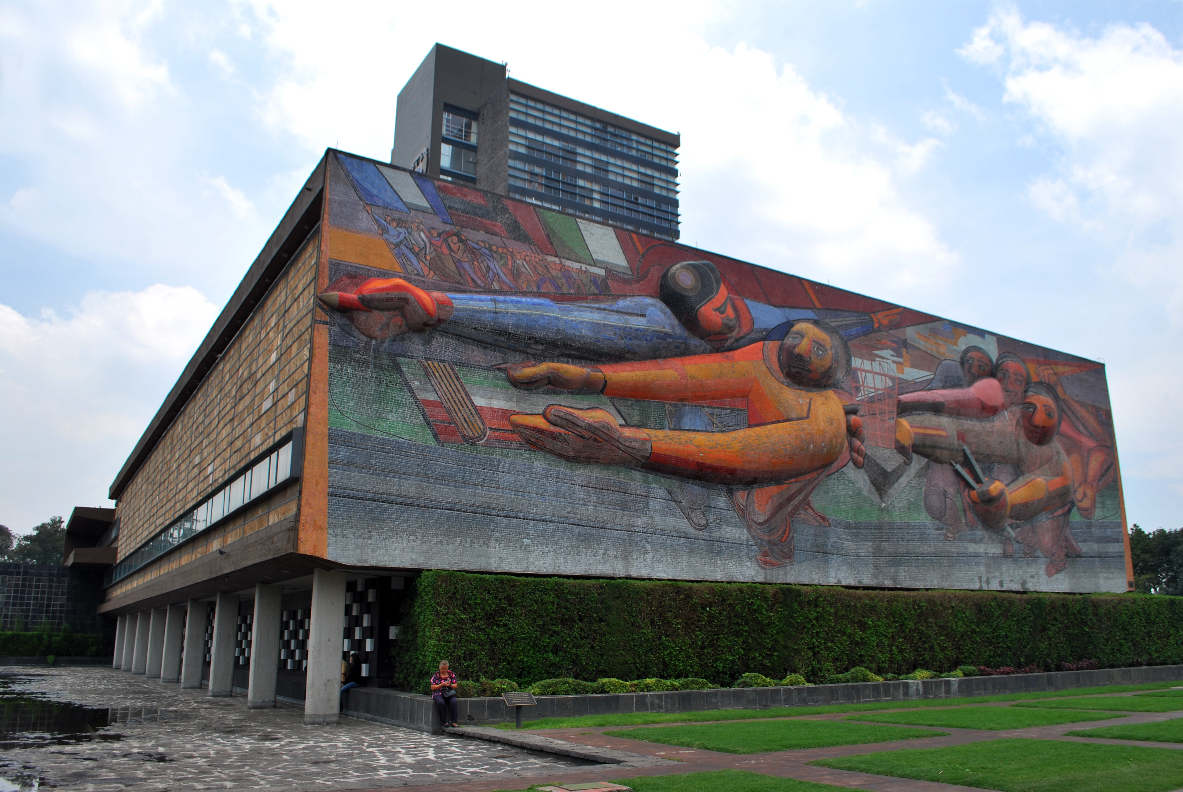 Mural by David Alfaro Siqueiros on the rectory building at UNAM, in Mexico City.